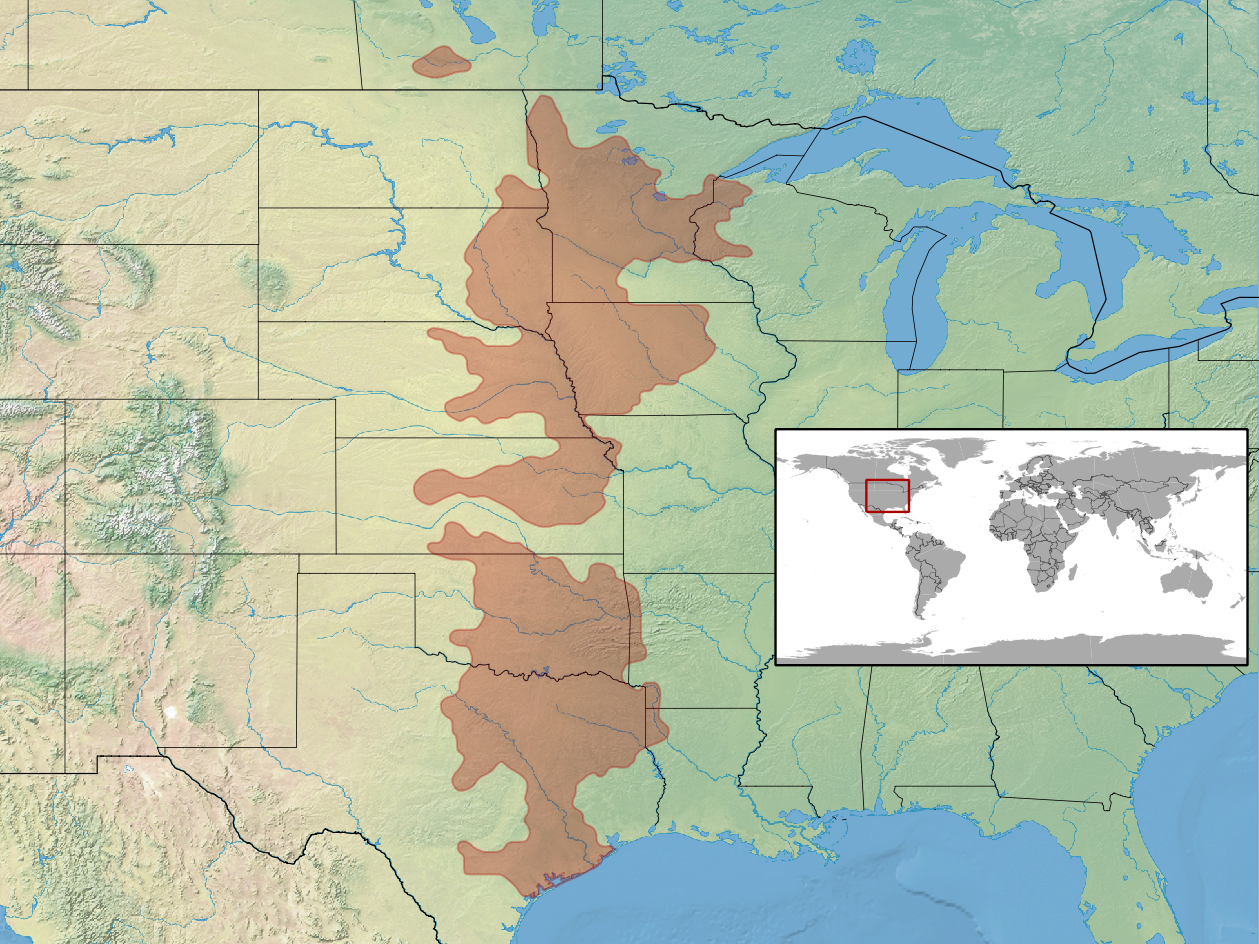 geographic distribution of Plestiodon septentrionalis